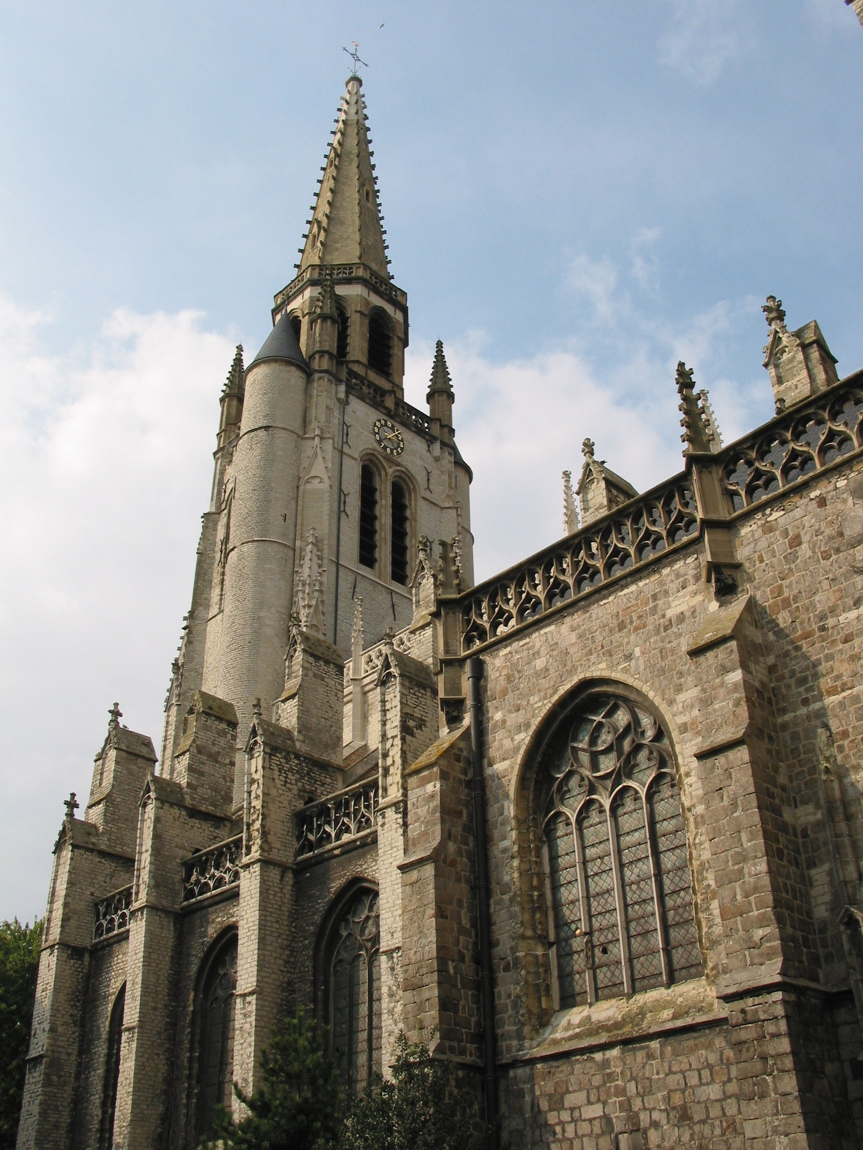 Wervik (Belgium), the St. Medardus' church (1380-1440).